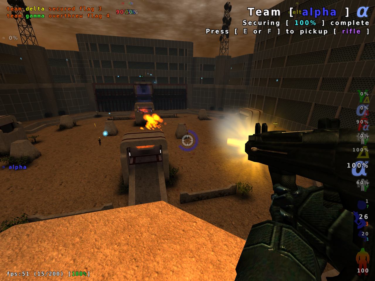 A Secure the Flag Session of Blood Frontier